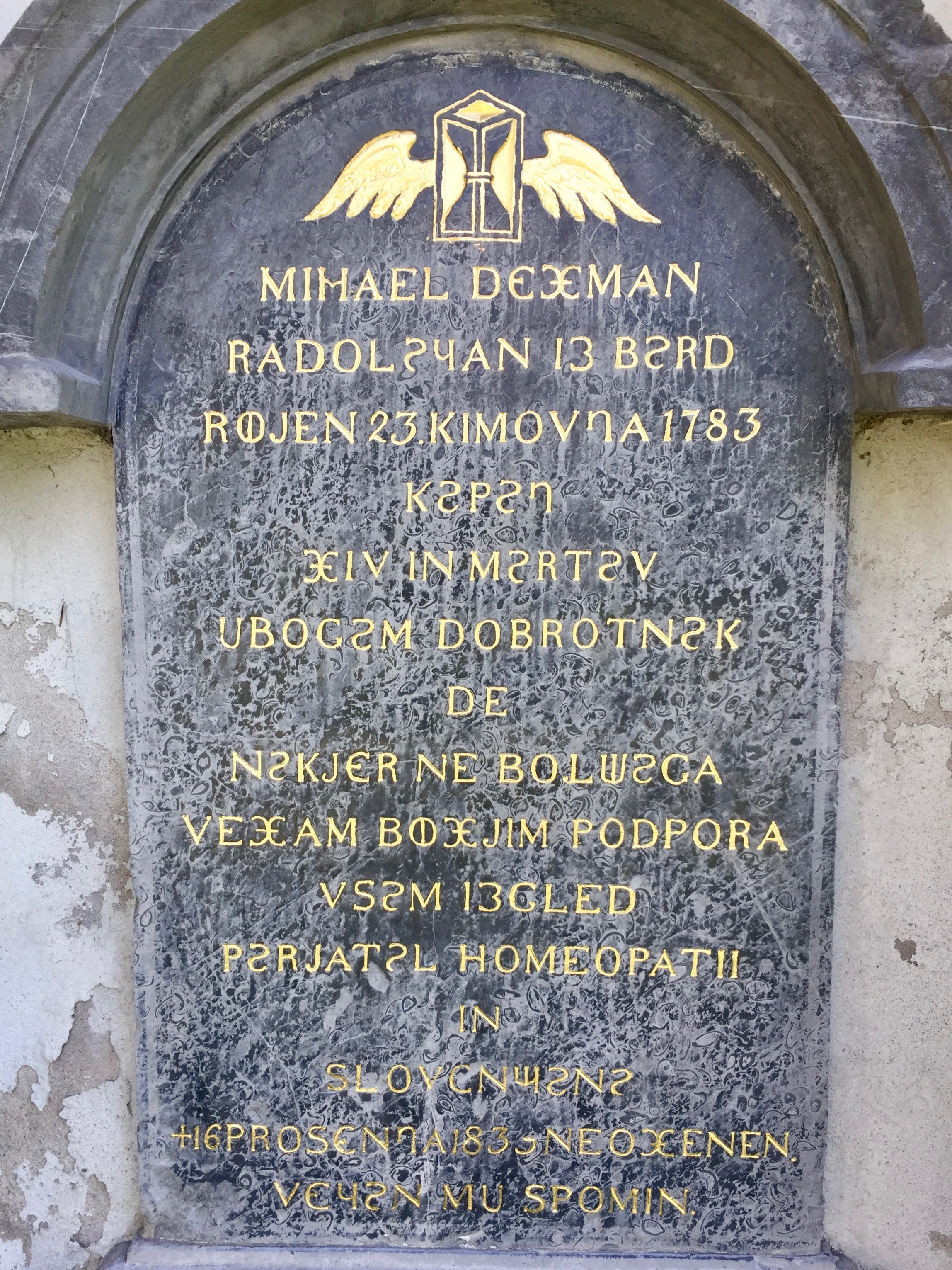 Tombstone of Mihael Dežman at the old cemetery Navje in Ljubljana. It's strong point and rarity is that it is written in the disused Metelko alphabet. Dežman was a friend and supporter of the inventor of the alphabet Franc Serafin Metelko.